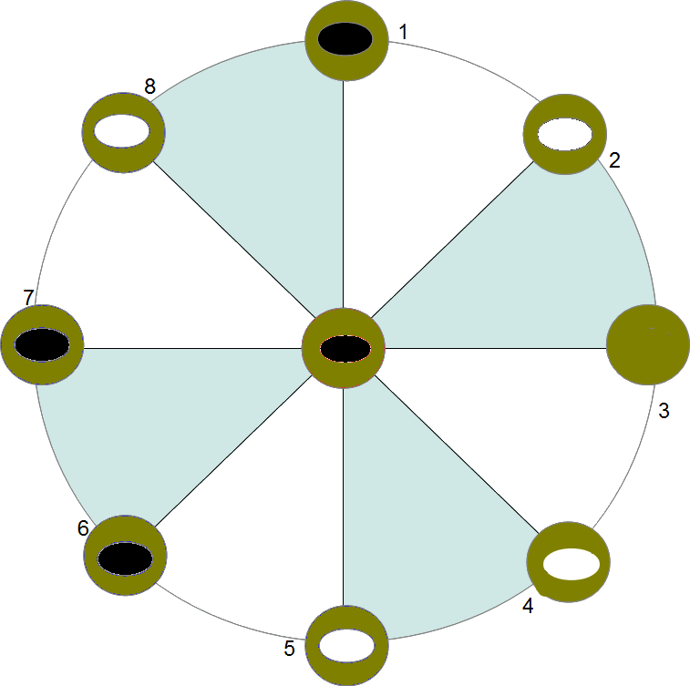 Mu Torere Playing Position